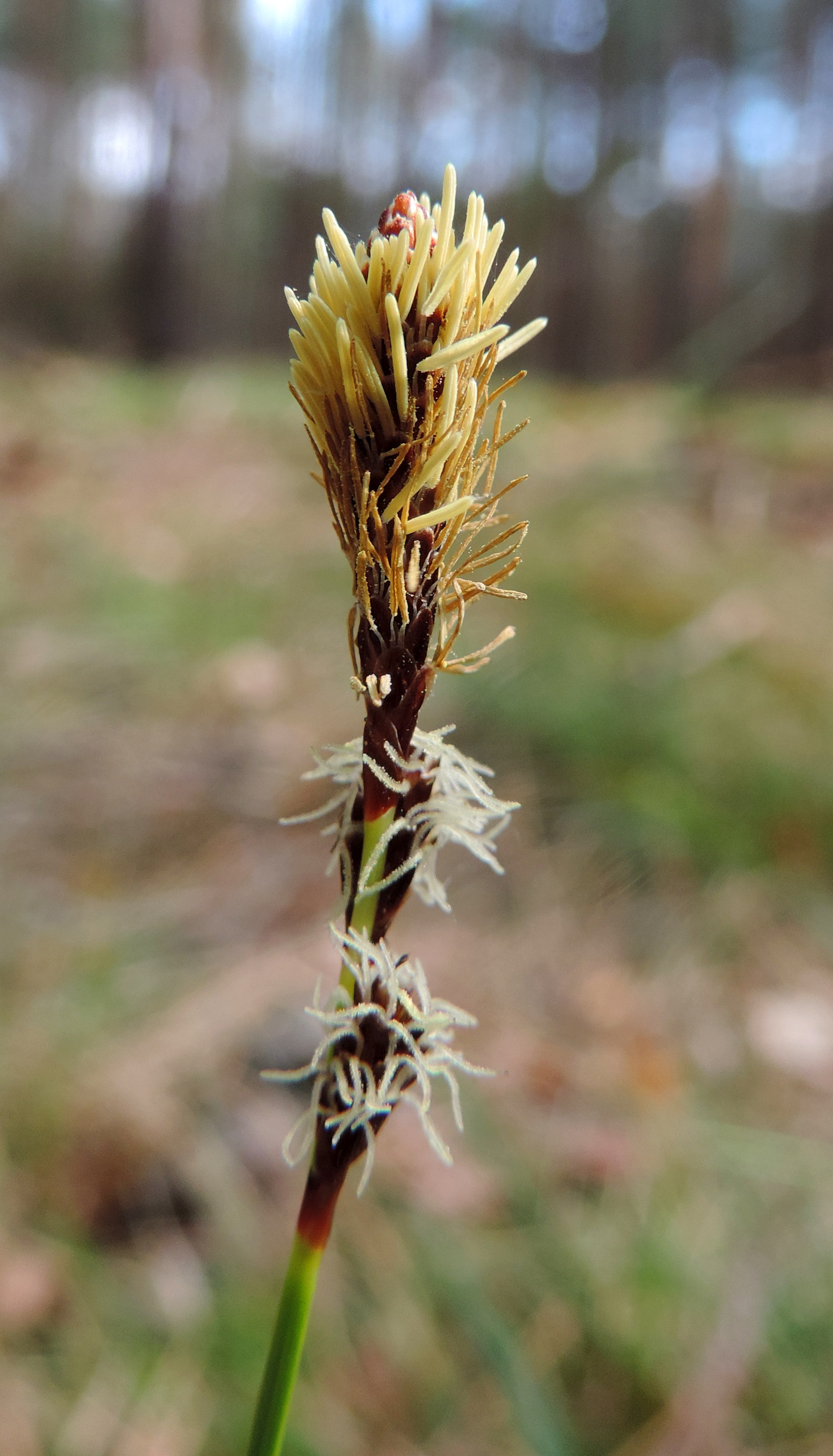 Carex ericetorum. Inflorescence. Vicinity od Skąpe, near Sulechów (W Poland)